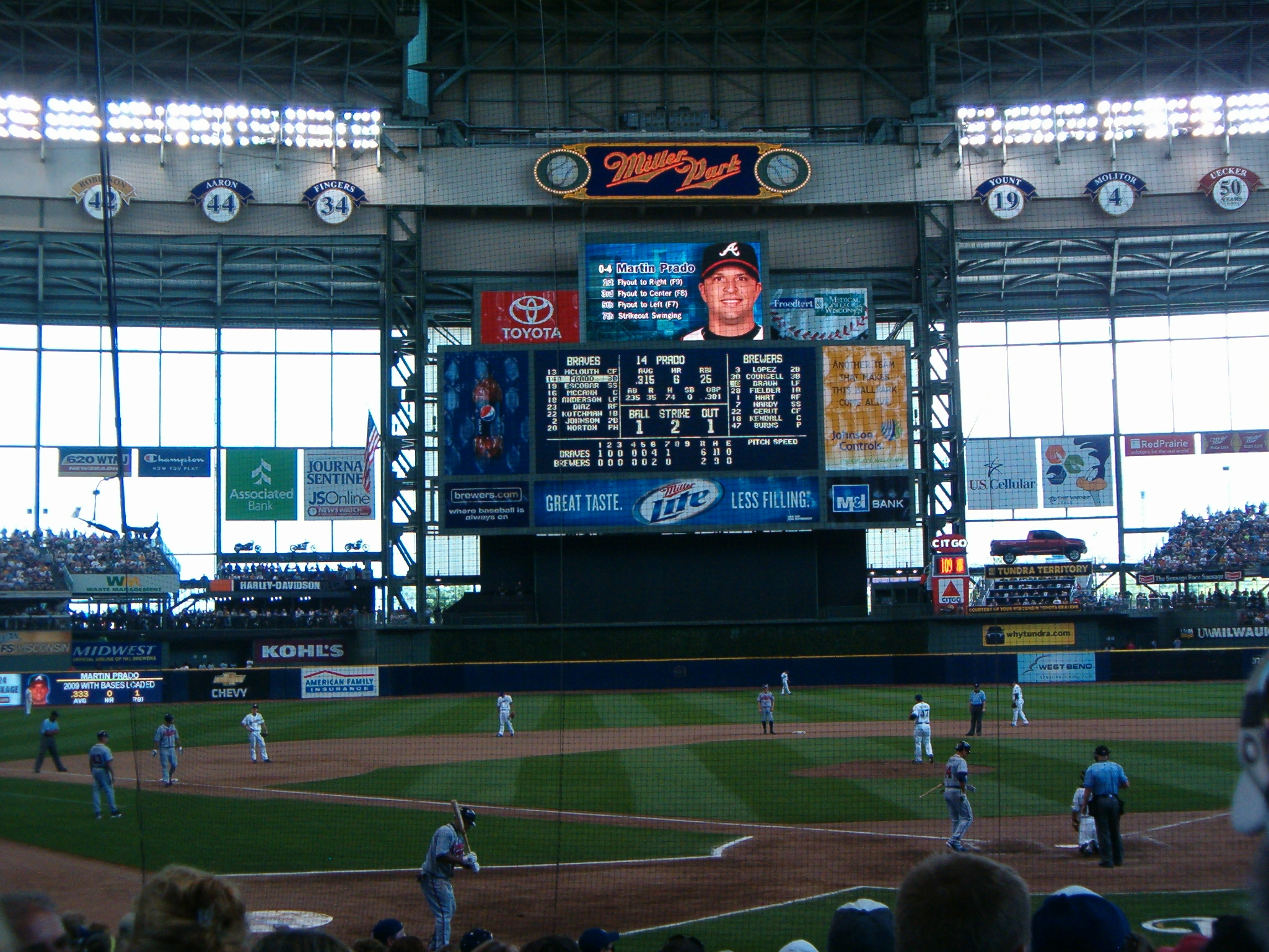 The view from behind home plate at Miller Park.